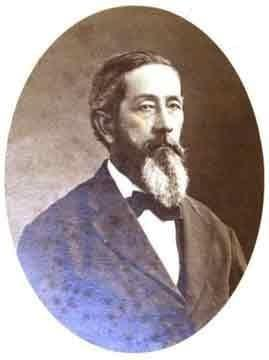 Ernest Morphy, Paul Morphy's uncle.